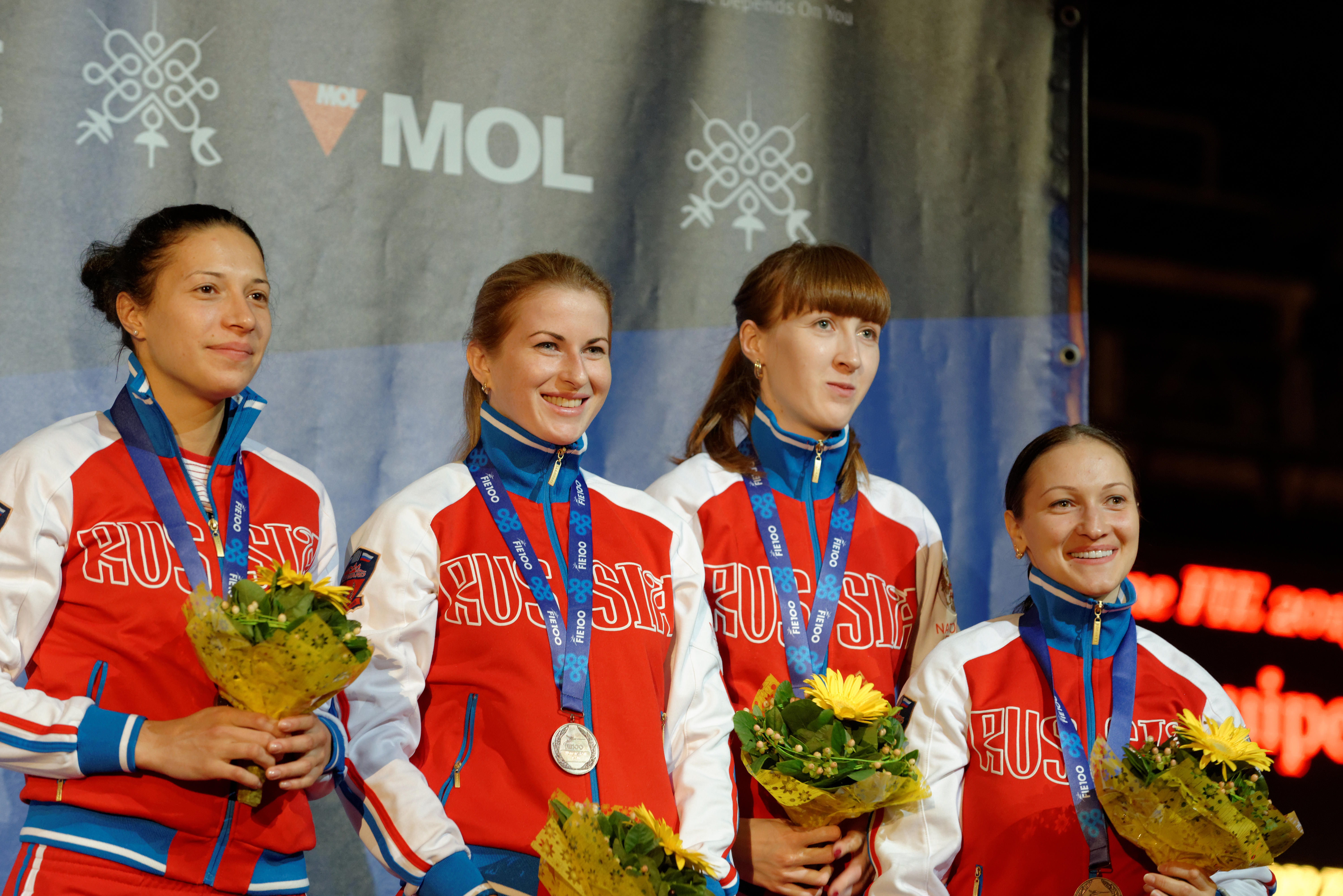 Russia women's team foil stand on the podium of the 2013 World Fencing Championships 2013 at Syma Hall in Budapest, 10 August 2013.